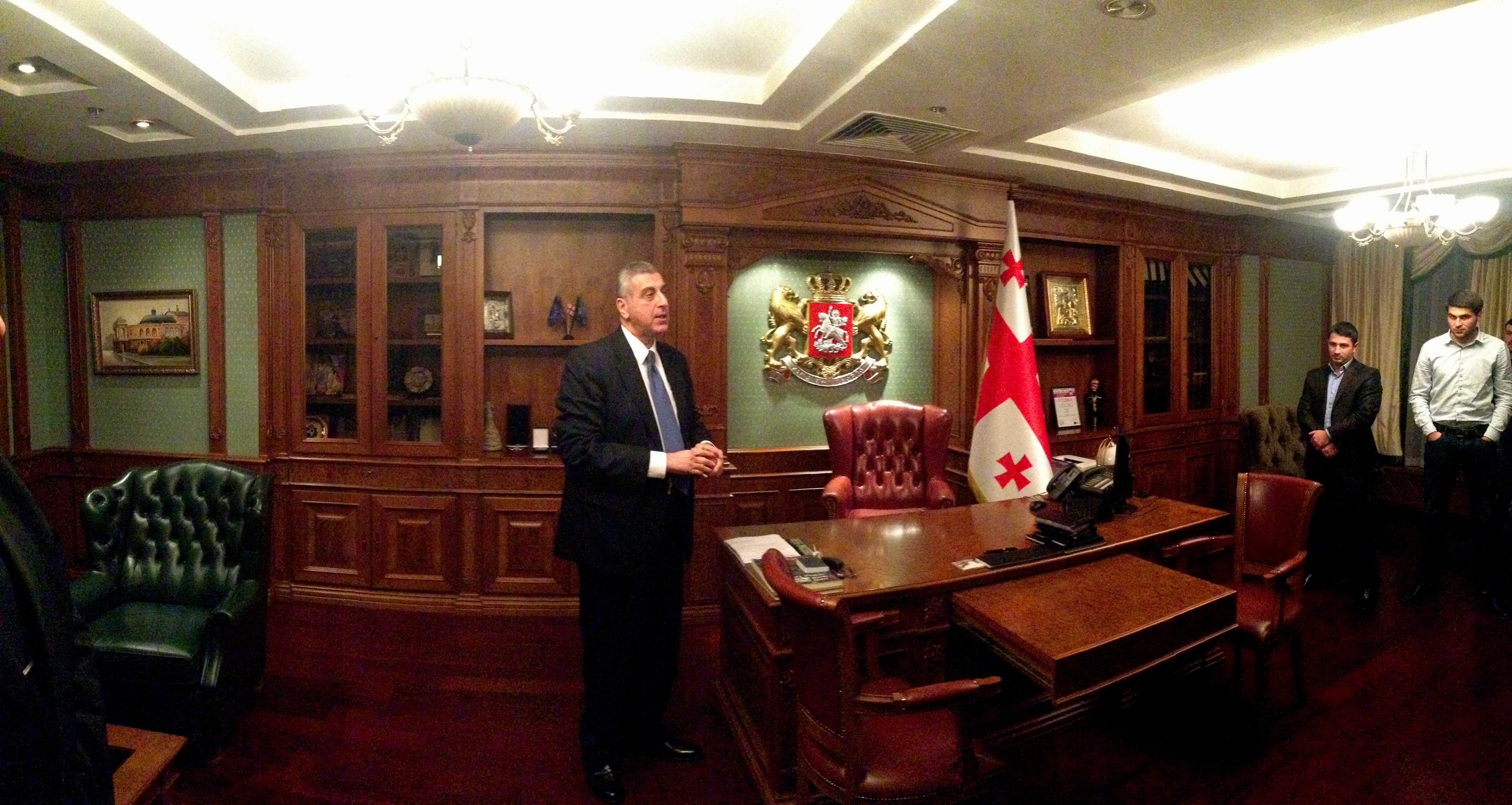 Ambassador Mikheil Ukleba in his office in the embassy of Georgia in Kiev